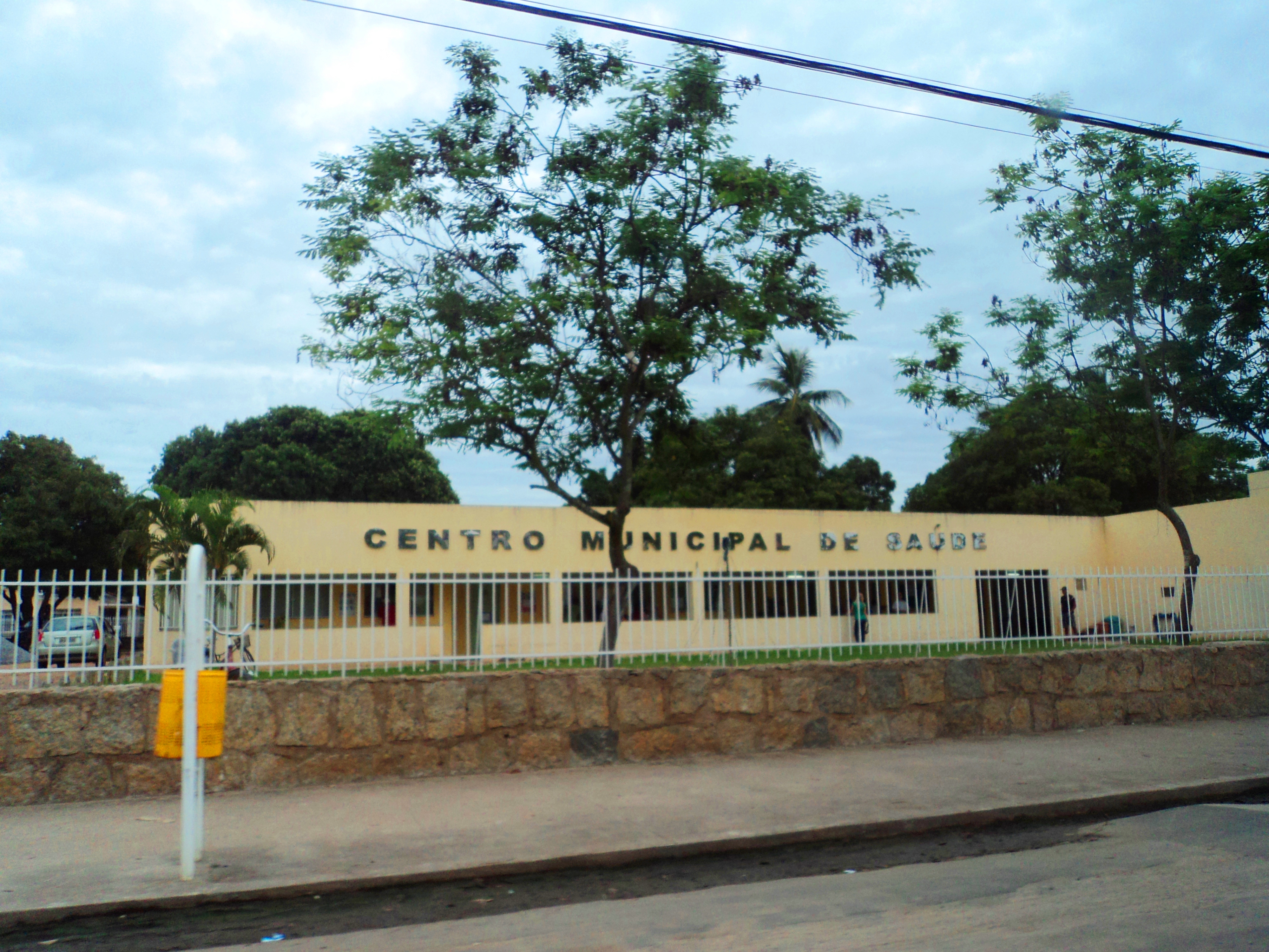 The Municipal Health Center of Aimorés, Minas Gerais, Brazil.